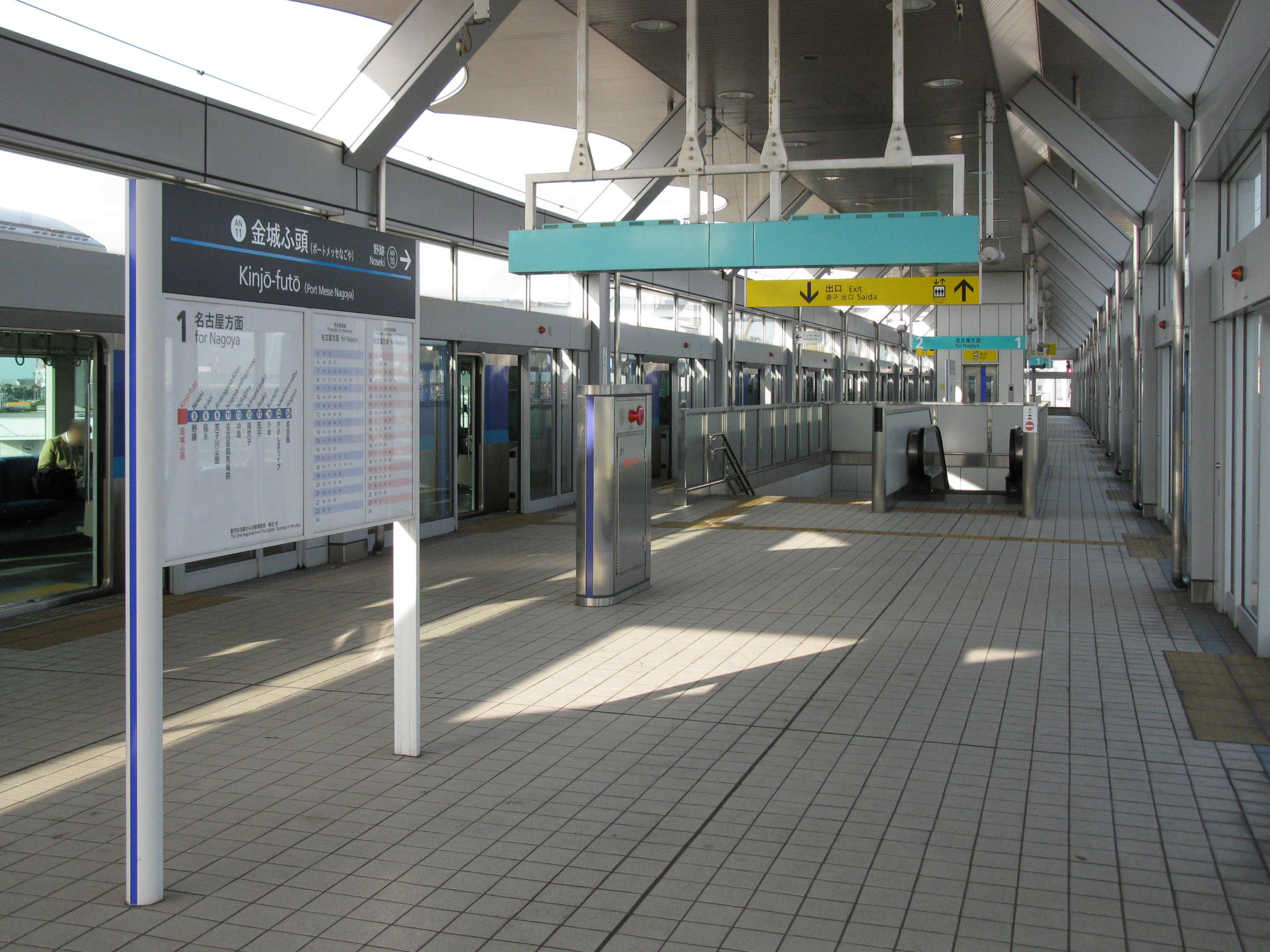 The platform at Kinjō-futō Station on the Aonami Line in Nagoya)